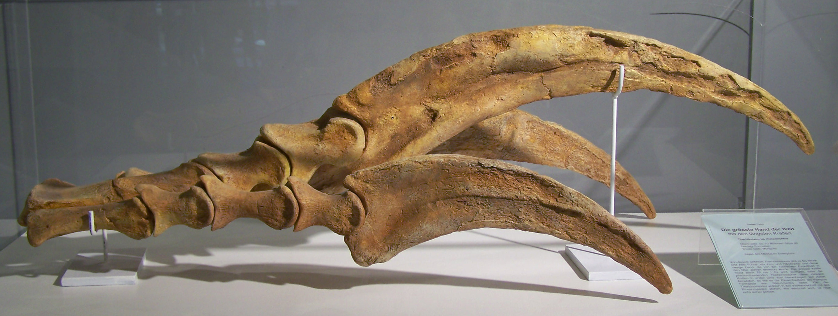 Replica of a fossil claw of Therizinosaurus cheloniformis. Found in the Upper Cretaceous Nemegt Formation (about 70 million years old), Mongolia. Collection of the Sauriermuseum Aathal, Aathal, Switzerland.